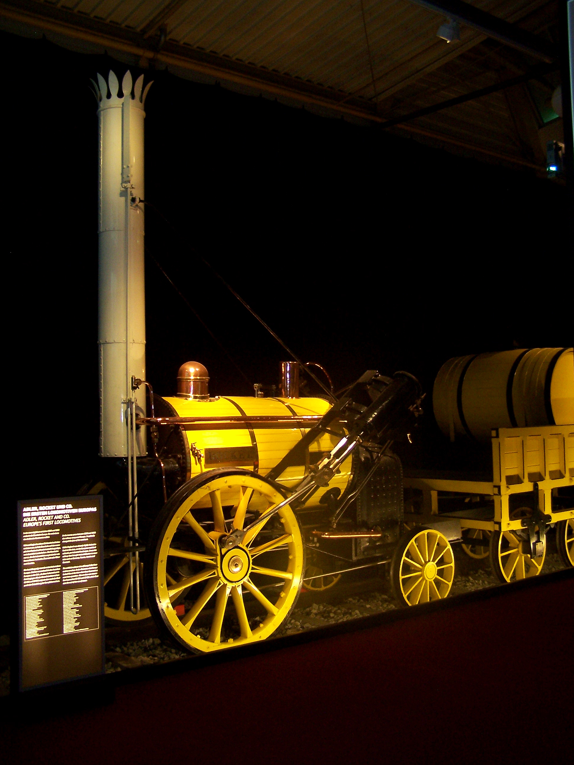 Replica from 1935 of the historic steam locomotive Rocket from 1829, a competitor of the Rainhill Trials, in the Transport Museum in Nuremberg in the exhibition "Adler, Rocket and Co."